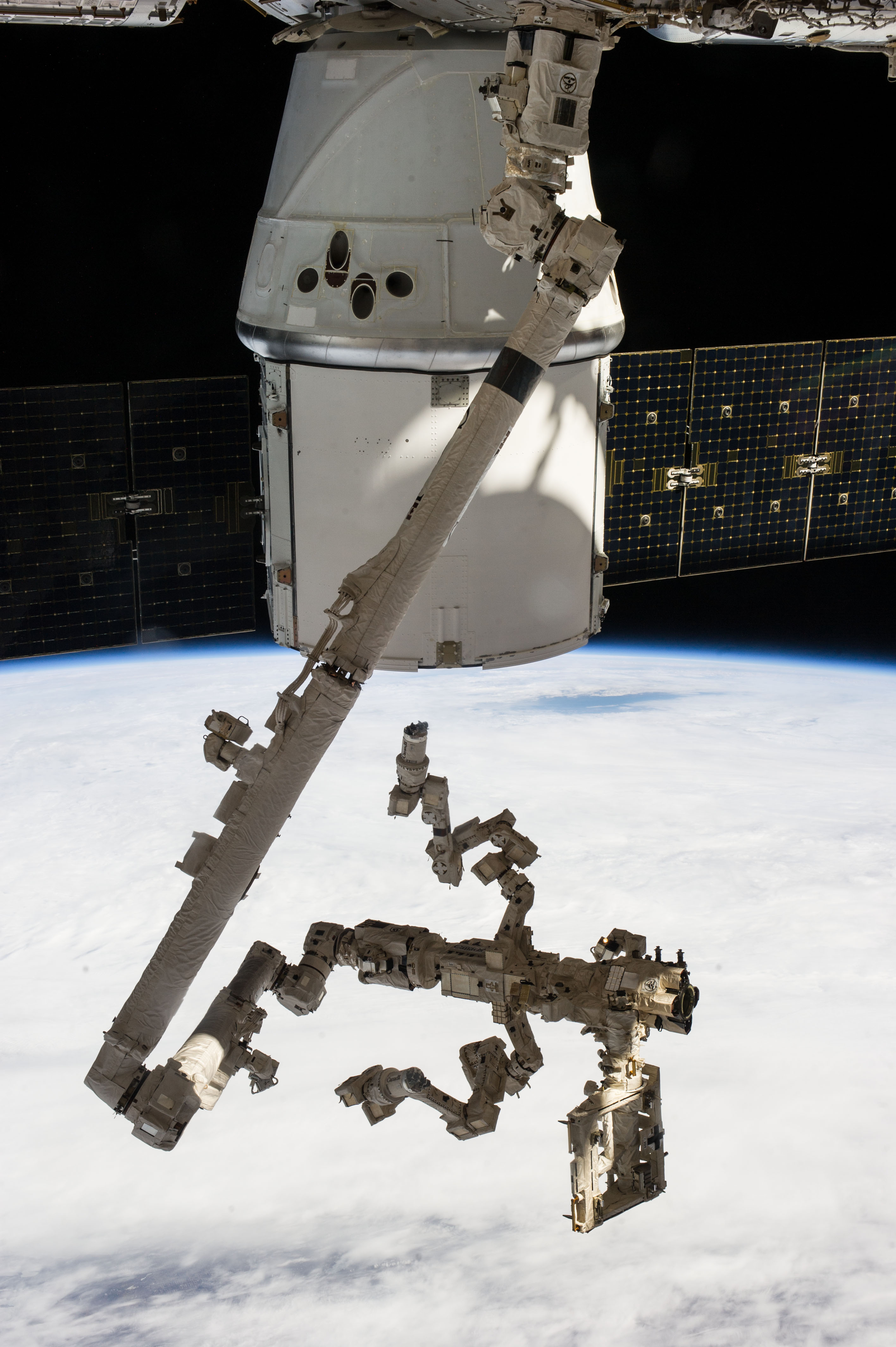 Backdropped against a cloudy portion of Earth, the Special Purpose Dexterous Manipulator -- the Canadian Space Agency's robotic "handyman" AKA Dextre -- and the Canadarm2 or Space Station Remote Manipulator System arm take a "rest" after completing a task 225 miles above the home planet. Robotic ground controllers used the Canadarm2 and Dextre to remove the High Definition Earth Viewing (HDEV) payload from the trunk of the SpaceX Dragon, seen in the top portion of the photo. HDEV was installed on the nadir adapter on the European Space Agency's Columbus exposed facility (out of frame).